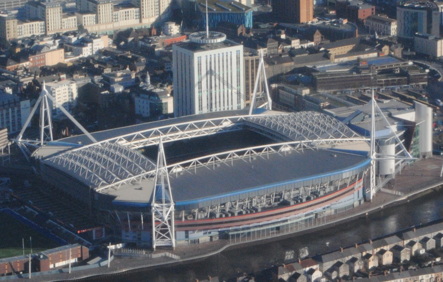 Aerial view of the Millennium Stadium, Cardiff, Wales